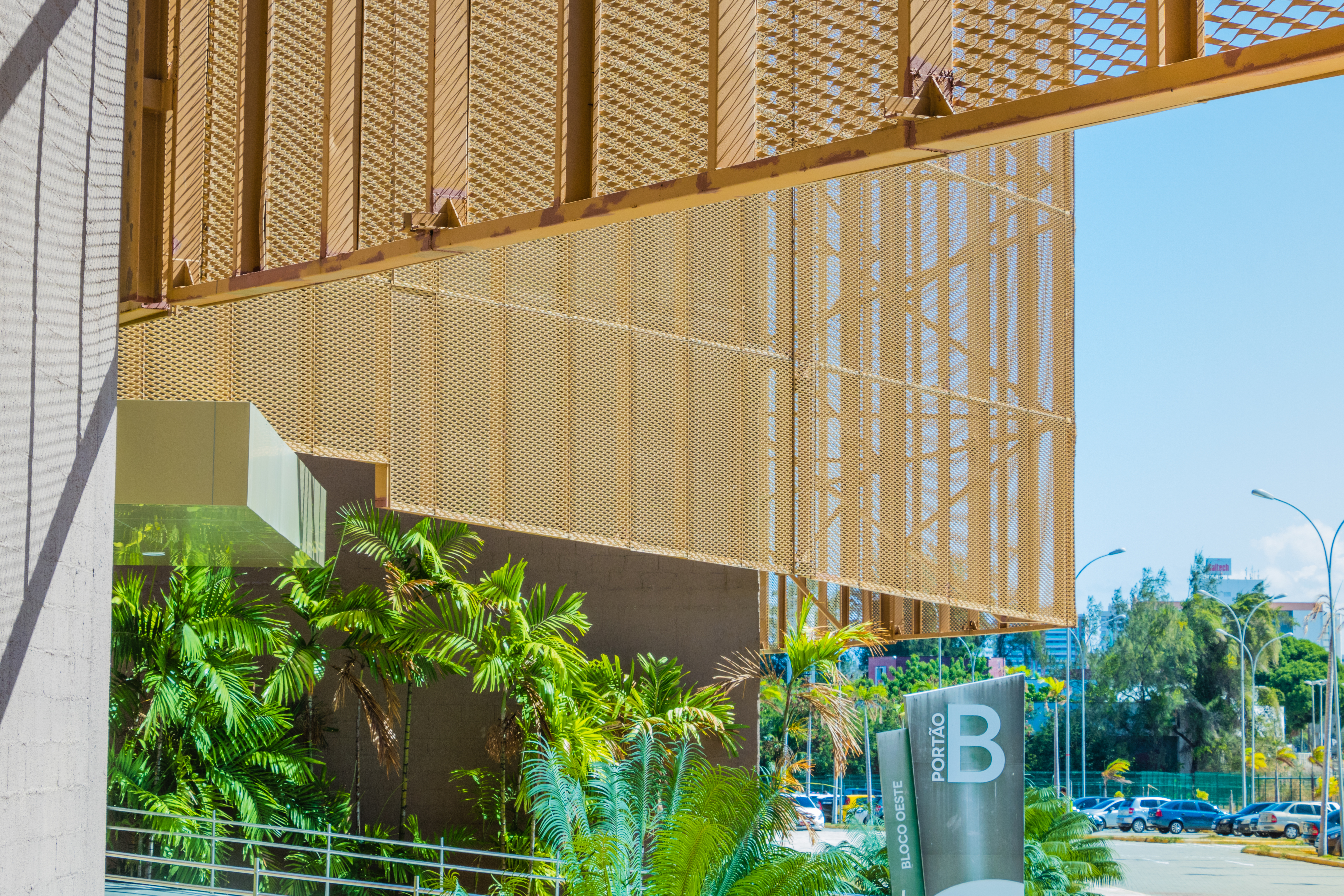 Centro de Eventos do Ceará, Fortaleza, Ceará, Brazil.